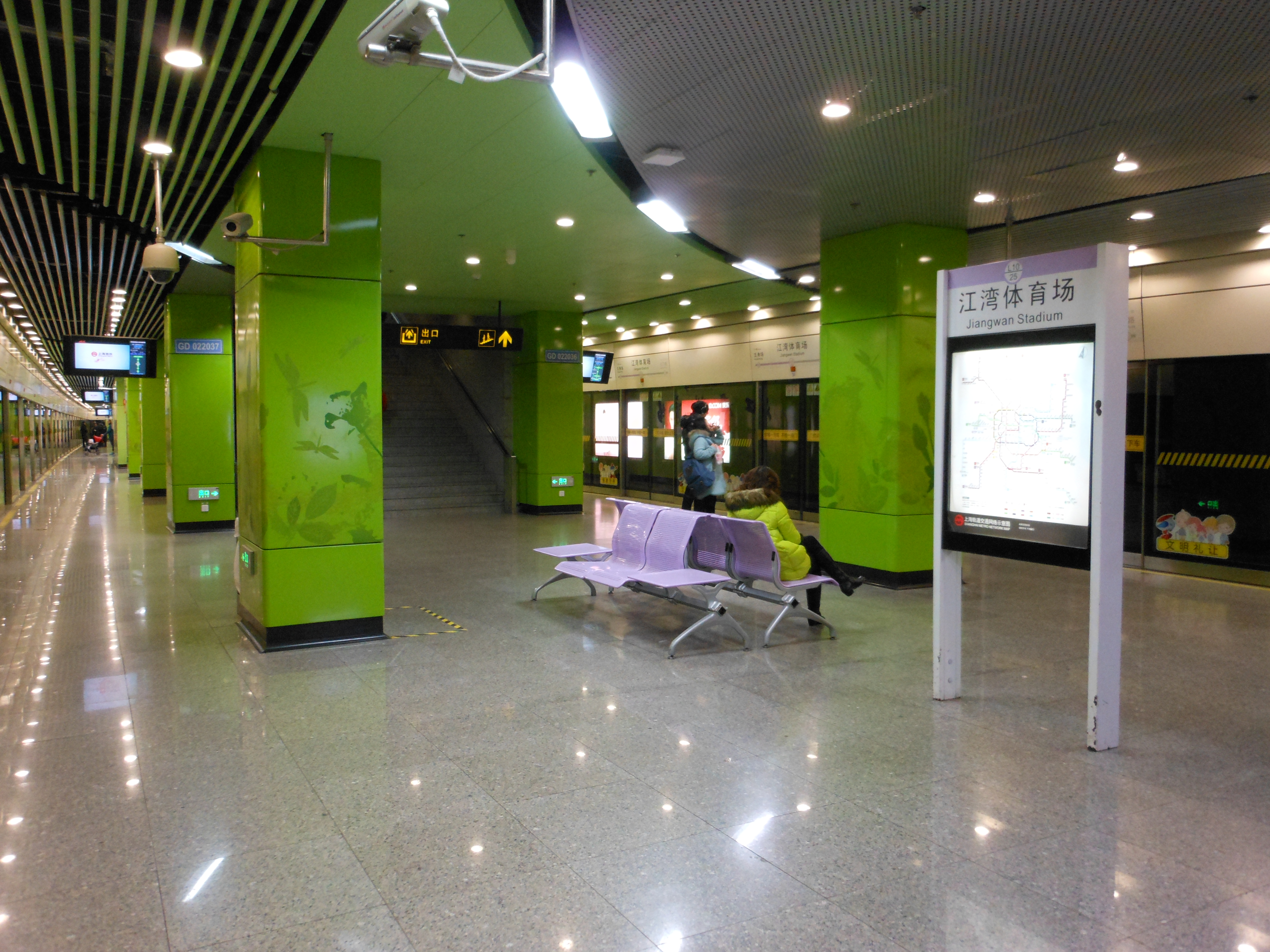 Line 10 Platform of Jiangwan Stadium Station